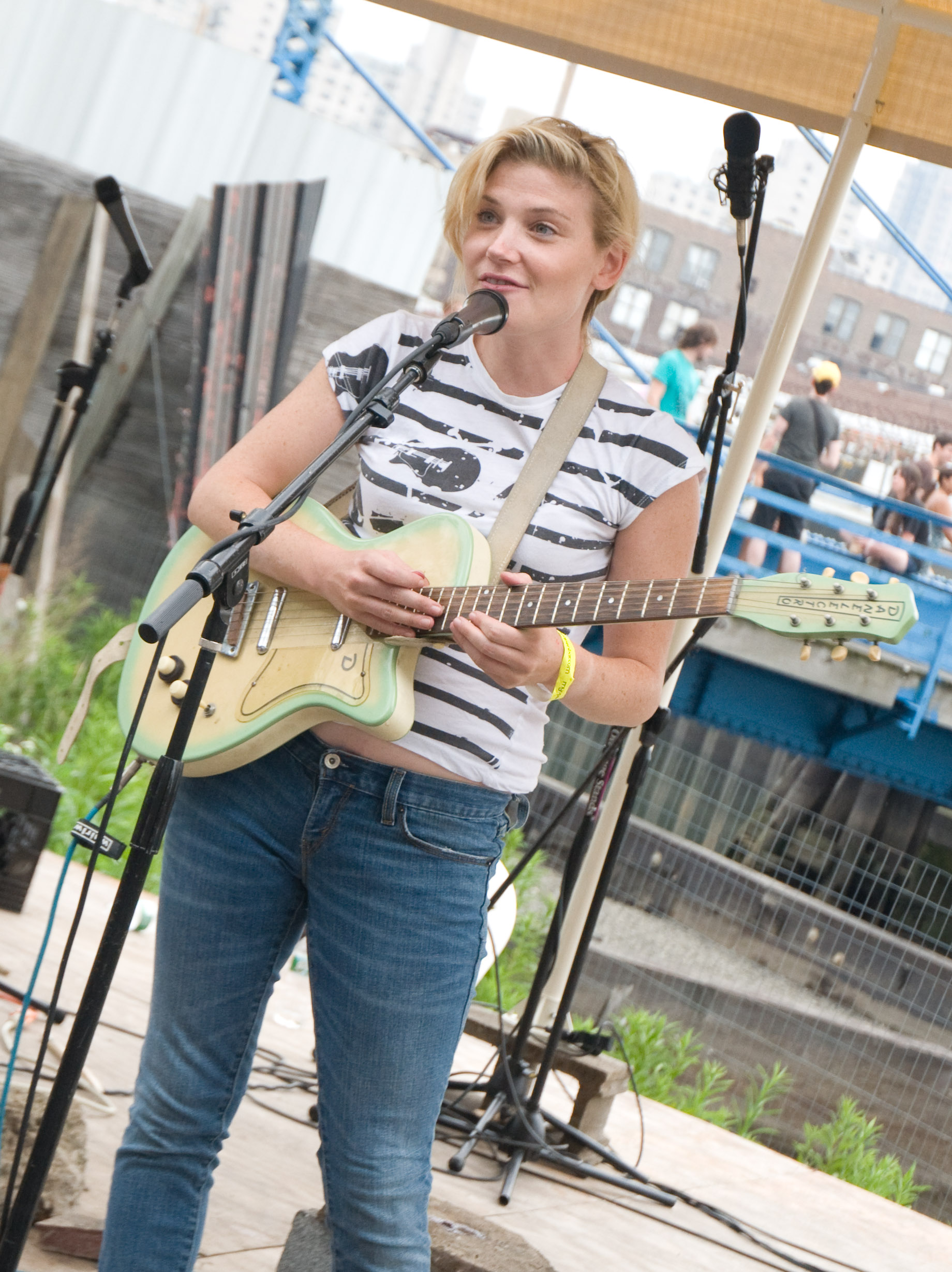 Marnie Stern, July 4th 2008-5, Brooklyn